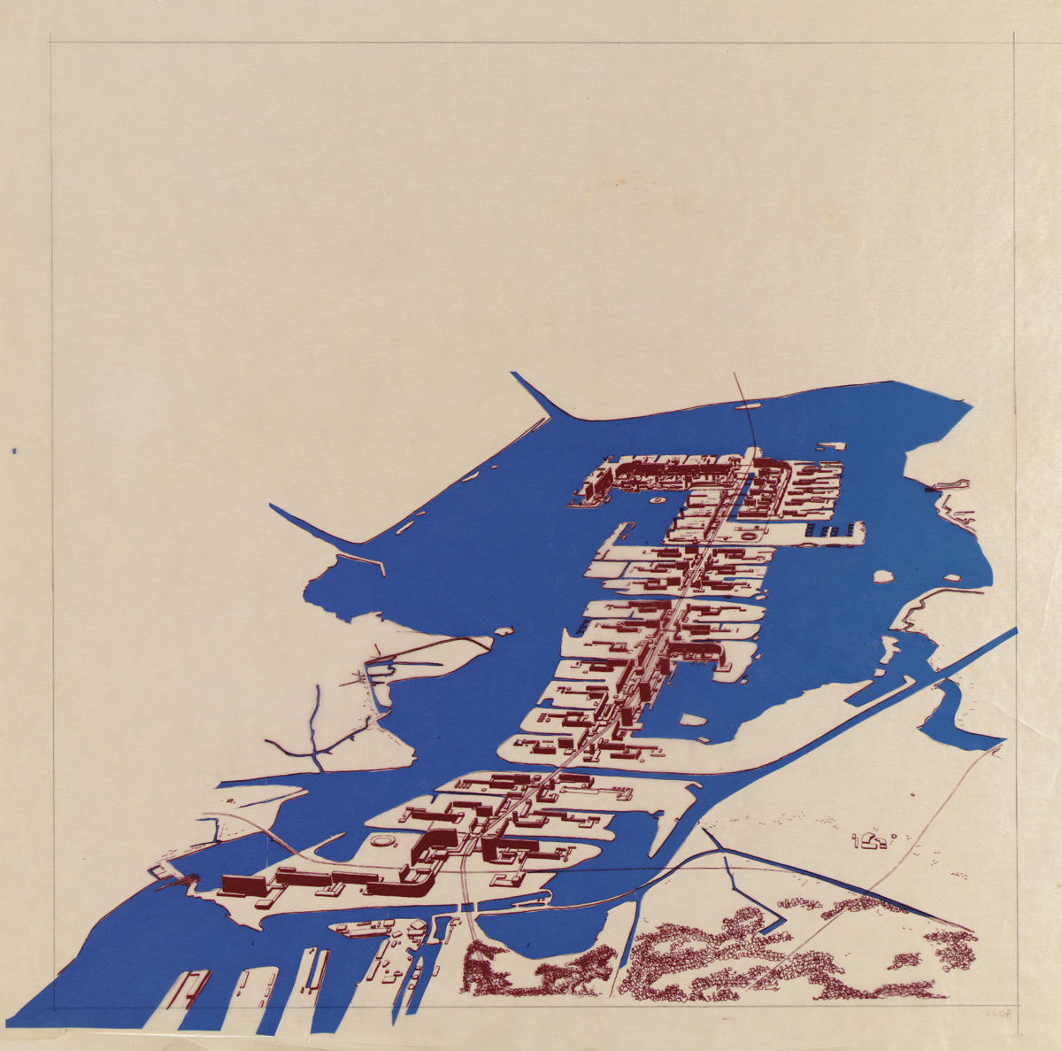 Van den Broek en Bakema Architecten. Uitbreidingsplan Pampus, Amsterdam, 1964-1965 Collectie Het Nieuwe Instituut, BROX 1411 / in bruikleen van Broekbakema, Rotterdam Soms zijn architecten net profeten. Als een gewerveld dier strekt deze stad zich uit in het intens blauwe water van het IJ. Hier ontstaat een megastad voor 350.000 inwoners als uitbreiding van Amsterdam. De ruggengraat bestaat uit autowegen en een monorail. Achter immens hoge flats liggen de woonwijken, afgeschermd van de verkeersader en gericht op het water. Pampus is de verheerlijking van de mobiliteit die de totale urbanisatie van Nederland mogelijk zou maken. Hoewel in omvang onvergelijkbaar met de recente stadsuitbreiding IJburg (1999), werpt Pampus zijn schaduw ver vooruit. Van den Broek en Bakema Architecten. Pampus Expansion Plan, Amsterdam, 1964-1965 The New Institute Collection, BROX 1411 / on loan from Broekbakema, Rotterdam Sometimes architects are like prophets. Like a vertebrate animal, this city stretches out in the intense blue water of the IJ. Here a mega-city for 350,000 inhabitants is established as an expansion of Amsterdam. The backbone consists of motorways and a monorail. Behind towering blocks of flats lie the residential districts, shielded from the traffic artery and oriented towards the water. Pampus is the glorification of the mobility that would make the total urbanisation of the Netherlands possible. In scale it cannot be compared with IJburg, the Amsterdam begun in 1999, but Pampus cast its shadow far into the future.